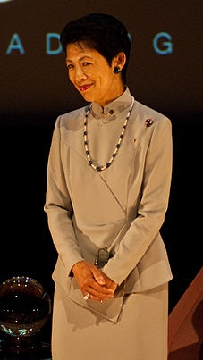 Her Imperial Highness the Princess Takamdo at an opening ceremony.Her Imperial Highness Princess Takamado